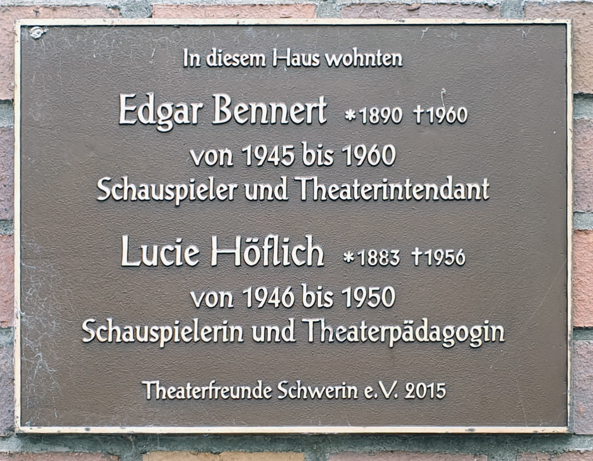 Memorial plaque, Edgar Bennert und Lucie Höflich, Kleiner Moor 11, Schwerin, Deutschland